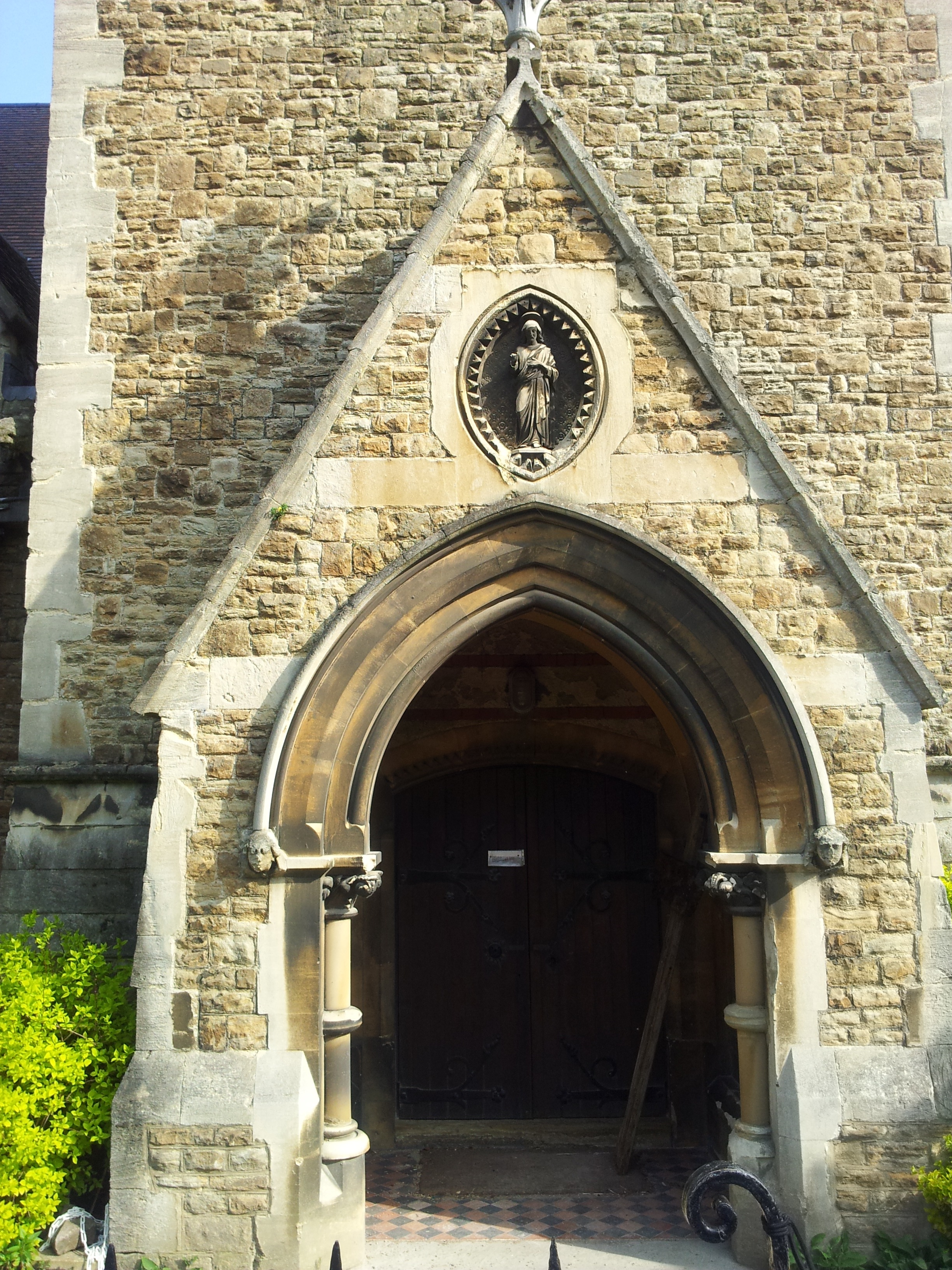 Porch of Christ Church parish church, Christchurch Road, East Sheen, southwest London